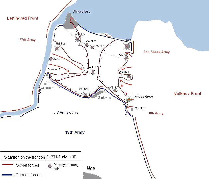 Development of "Iskra" op to the January 22